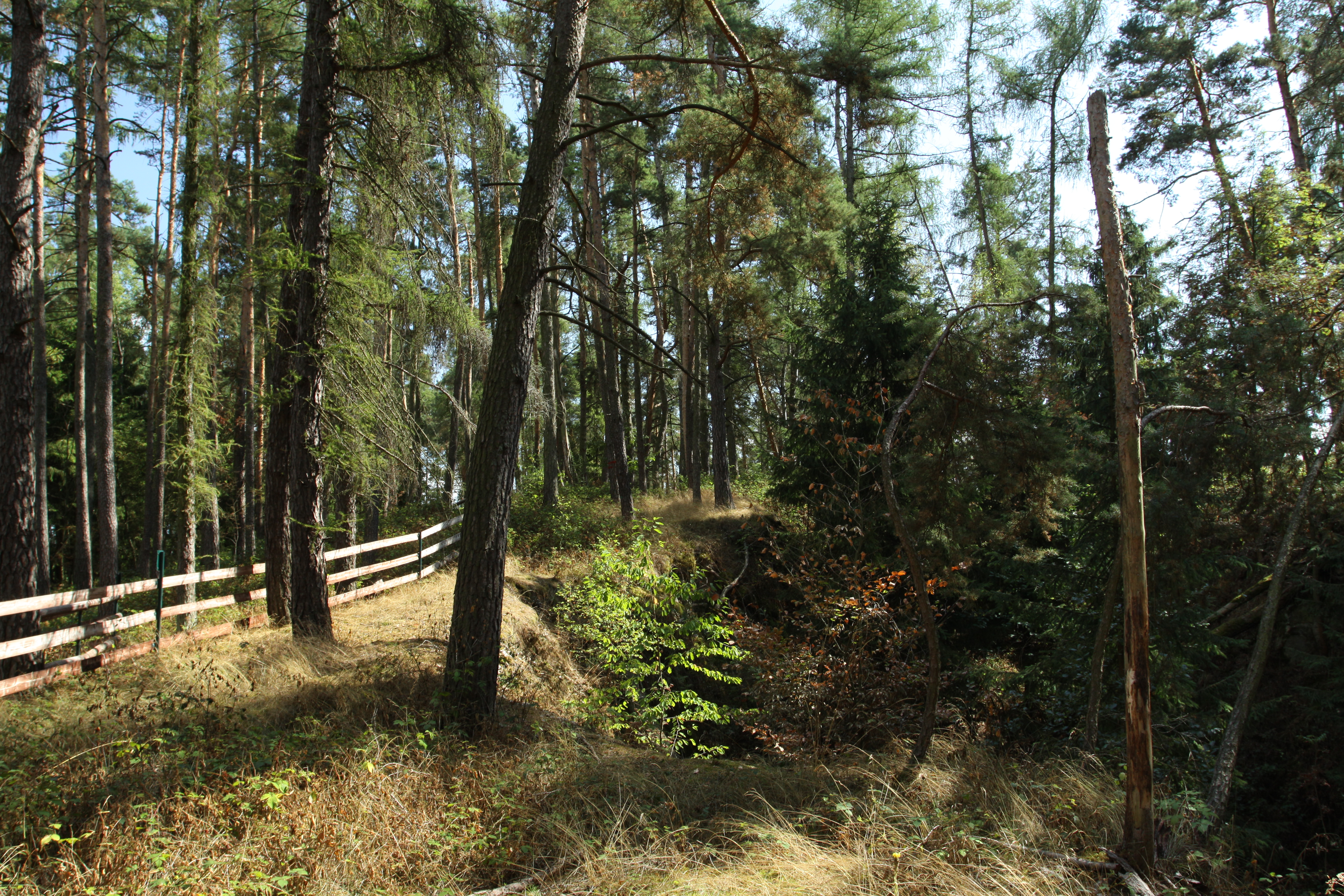 Natural monument Červený vrch near Otov village in Domažlice District, Czech Republic